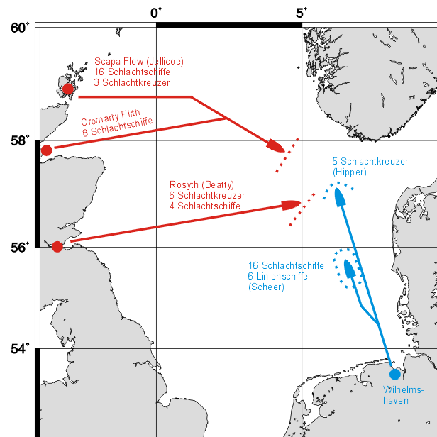 Battle of Jutland - Deployment 31 May 1916.